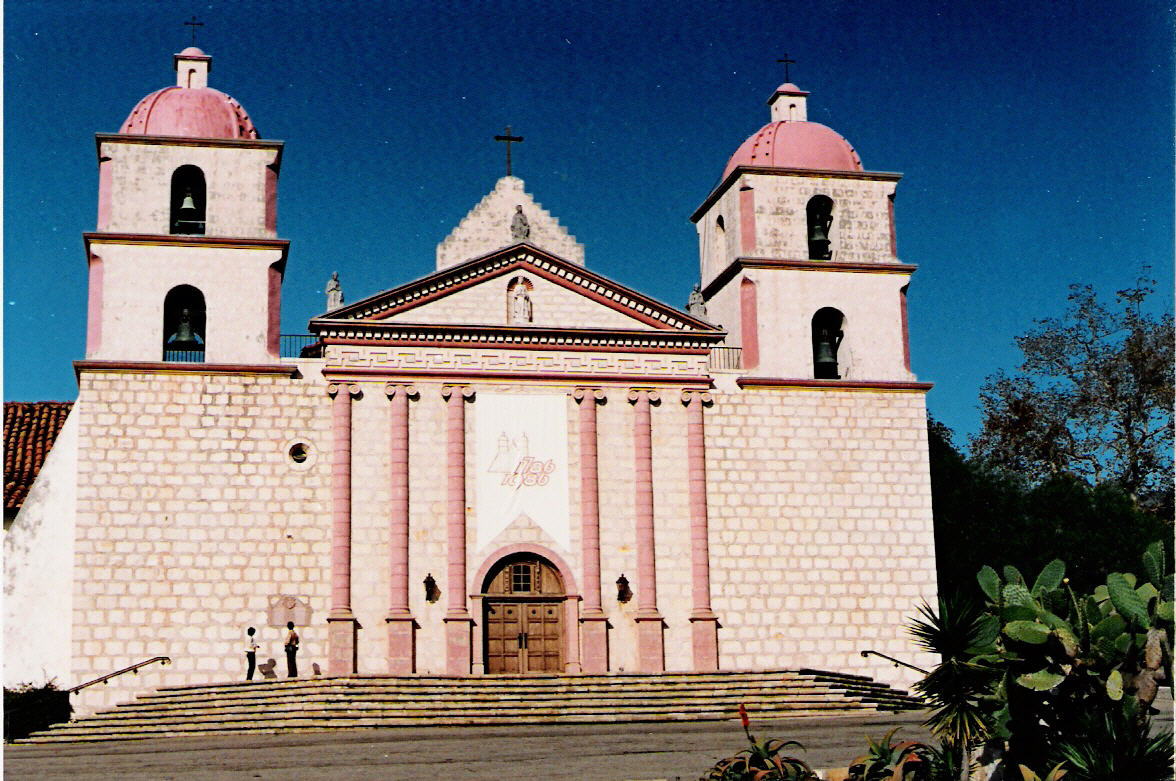 Mission Santa Barbara. Photograph by Robert A. Estremo, copyright 1987.